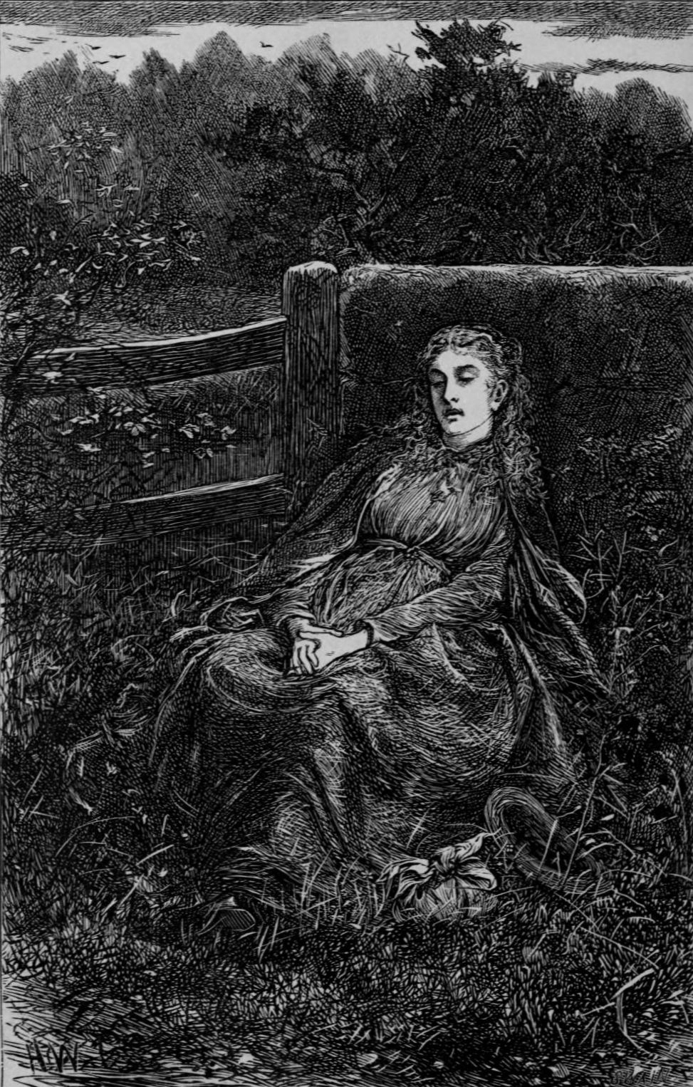 Henry Woods illustration, chapter 52: Carry Brattle